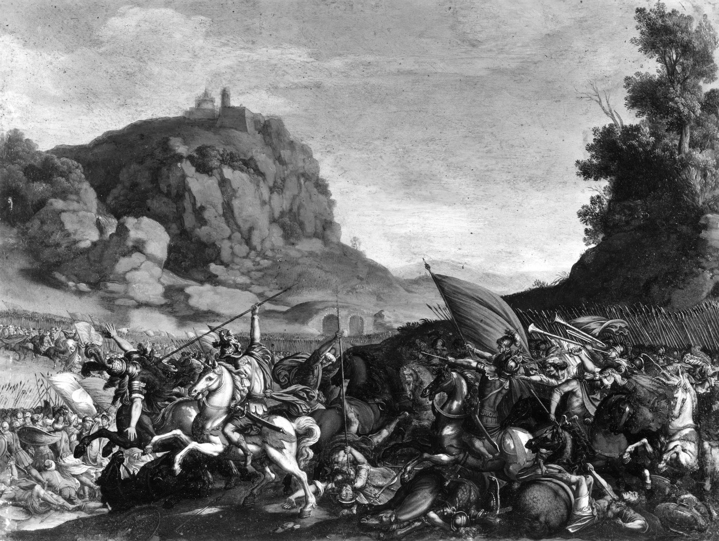 The horseman in the foreground of this painting wears the type of extravagant helmet associated with the Macedonian ruler-general Alexander the Great (356-323 BC), conqueror of Europe and Asia from the Aegean Sea to India and Afghanistan, as well as Greece and Egypt. Prints and paintings of his exploits were popular and validated Europeans' sense of destiny in seeking dominion over other cultures. Most Europeans did not know what India or Afghanistan looked like, so any vaguely rugged setting was suitable.